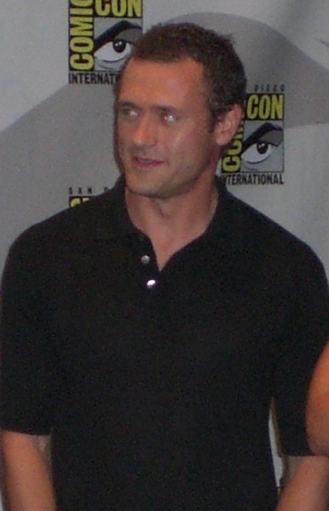 Jason O'Mara